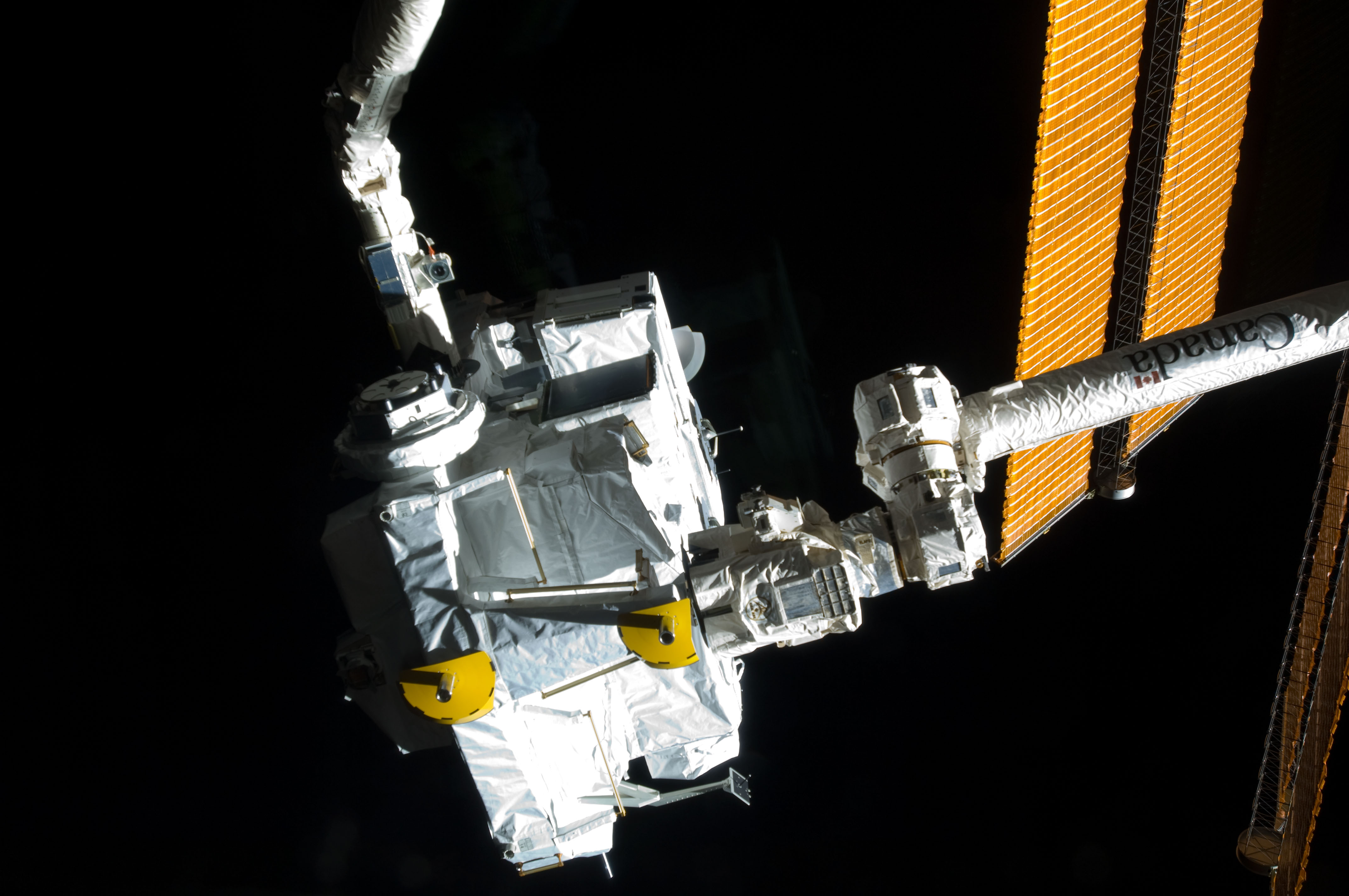 The Japanese Logistics Module - Exposed Section (JLE) is handed over from Endeavour's remote manipulator system to the space station's remote manipulator system (Canadarm2) during JLE unberthing and mating operations on flight day seven.